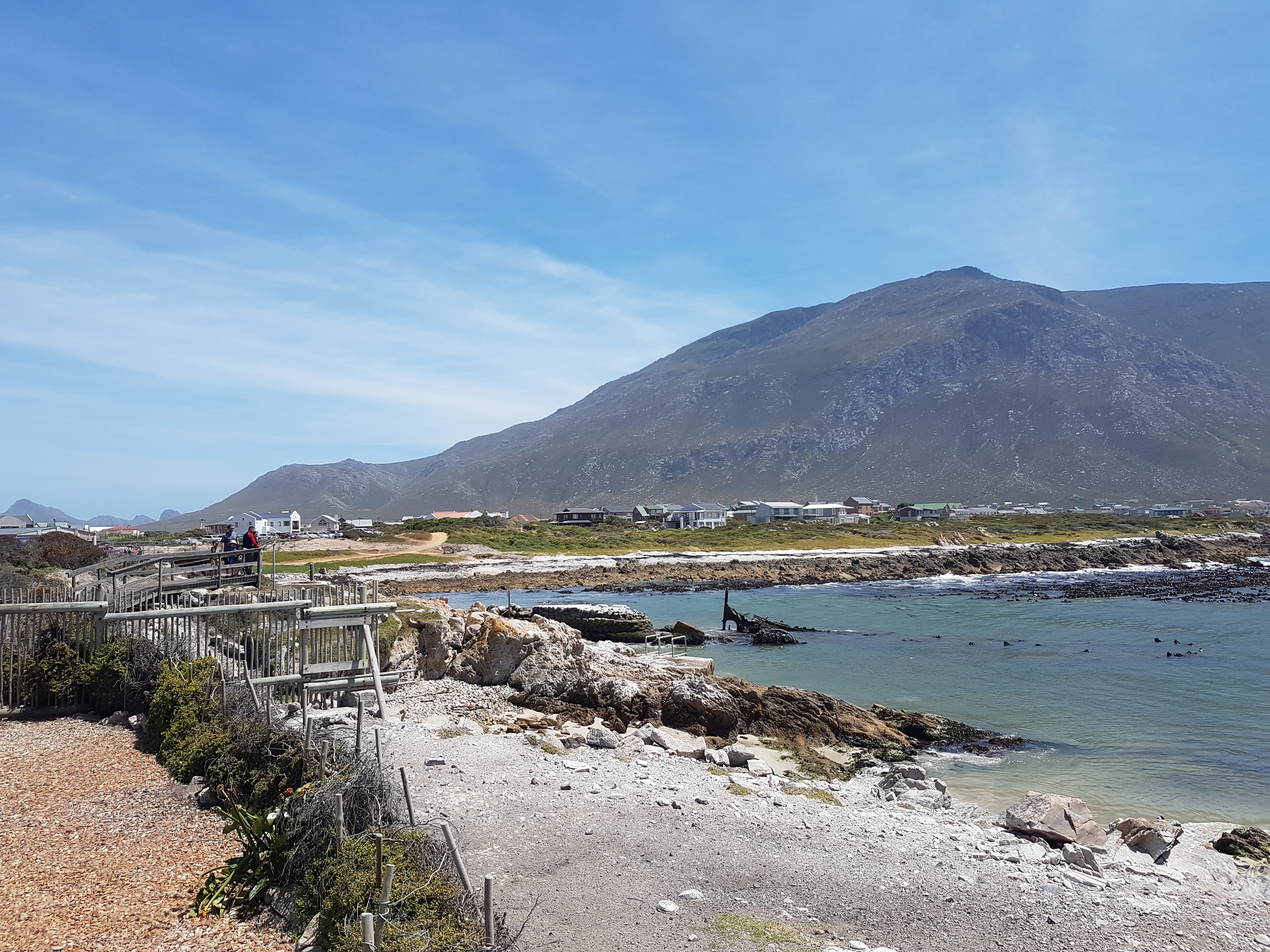 Betty's Bay 2016